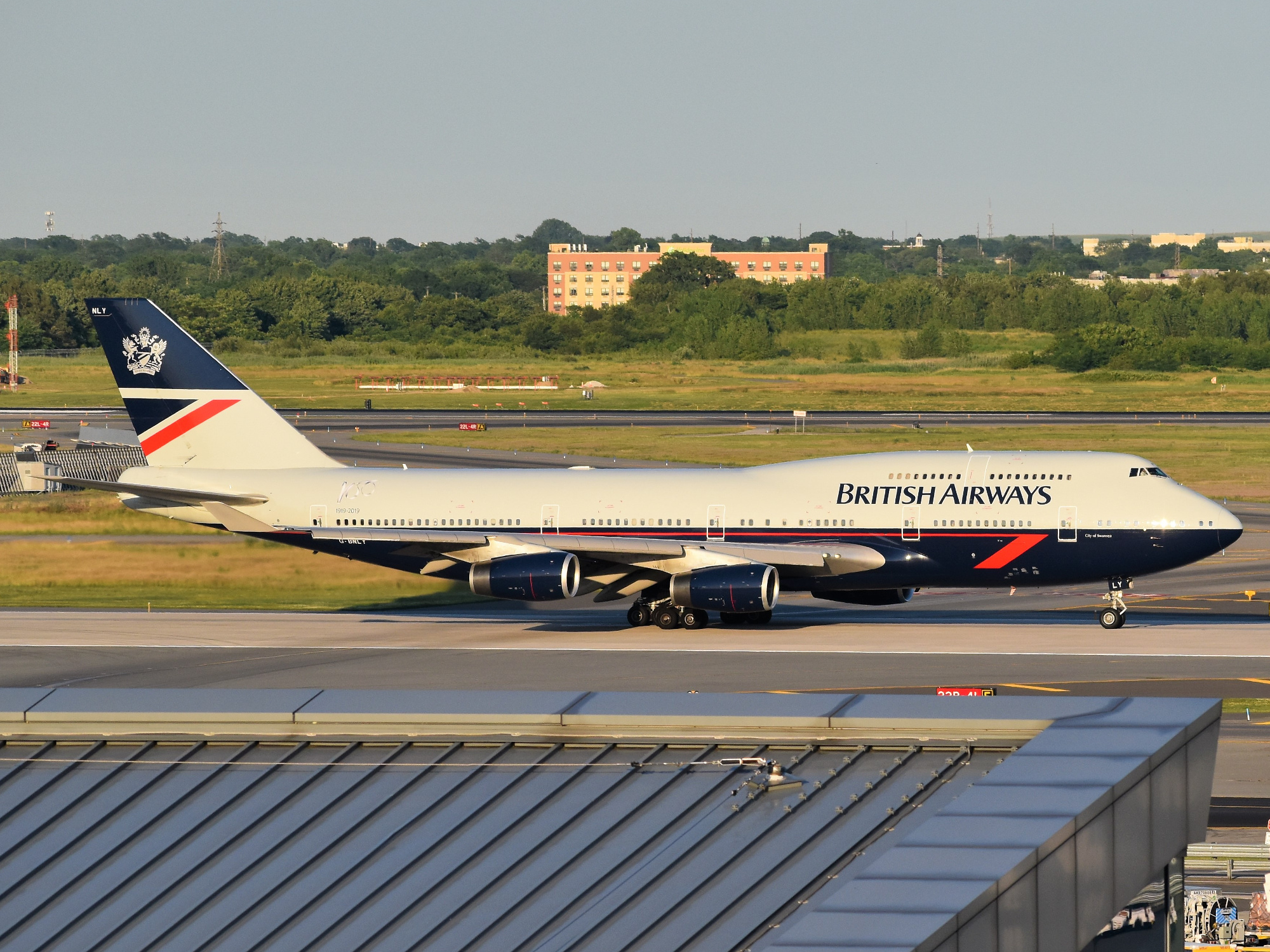 Painted in its original Landor livery, a British Airways Boeing 747-400 is rolling down Runway 22R at JFK Airport for a departure to London Heathrow Airport as Flight BA174.